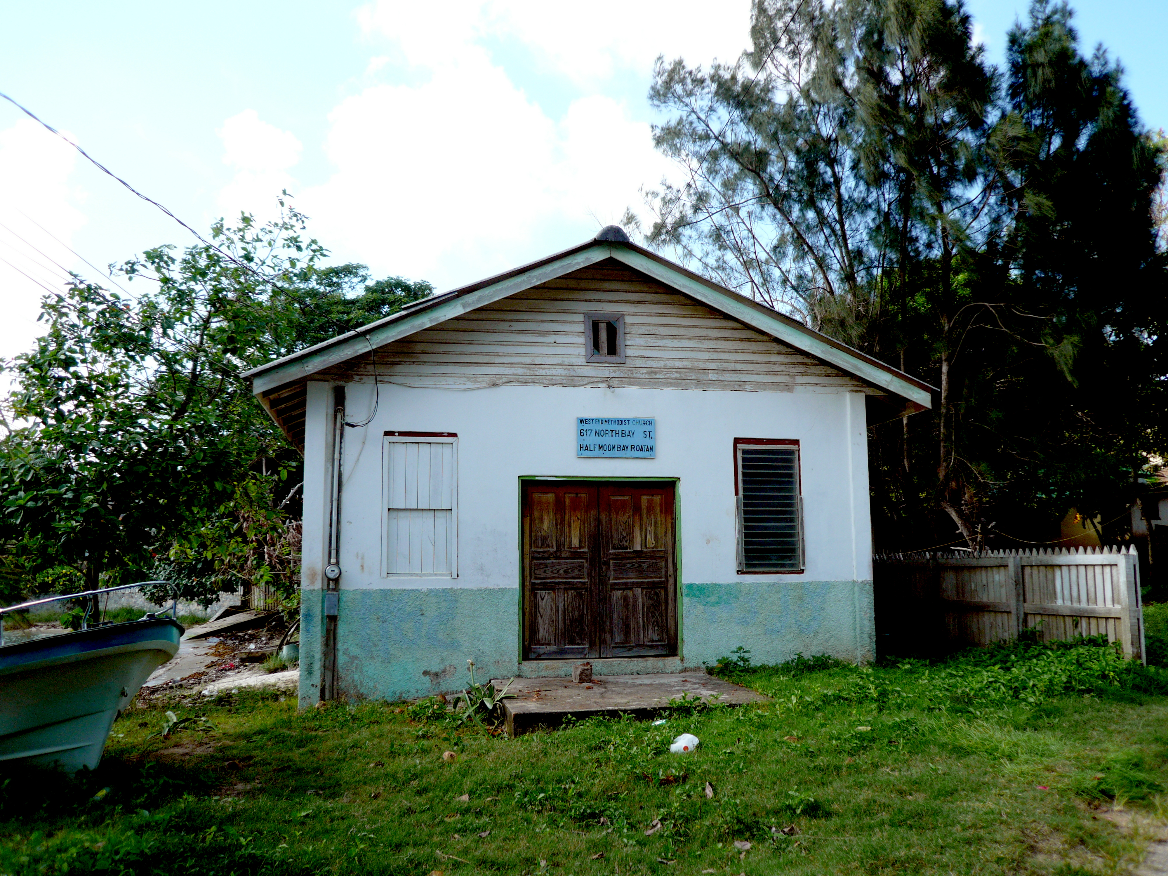 West End Methodist Church, Roatán, Honduras.